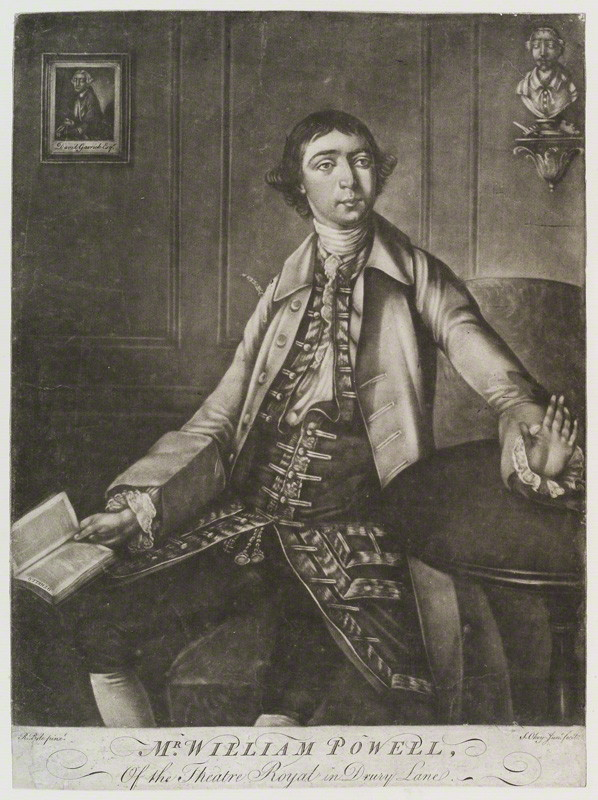 Portrait of William Powell (1735–1769), English actor.